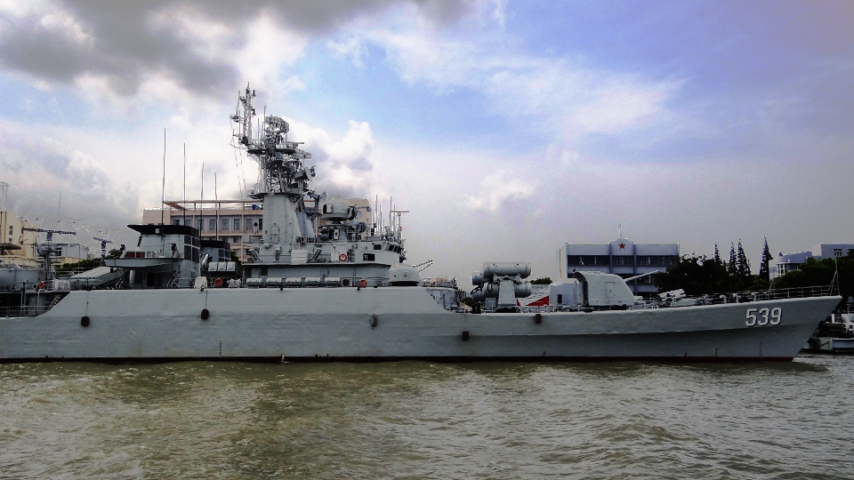 PLANS Anqing (FFG-539)